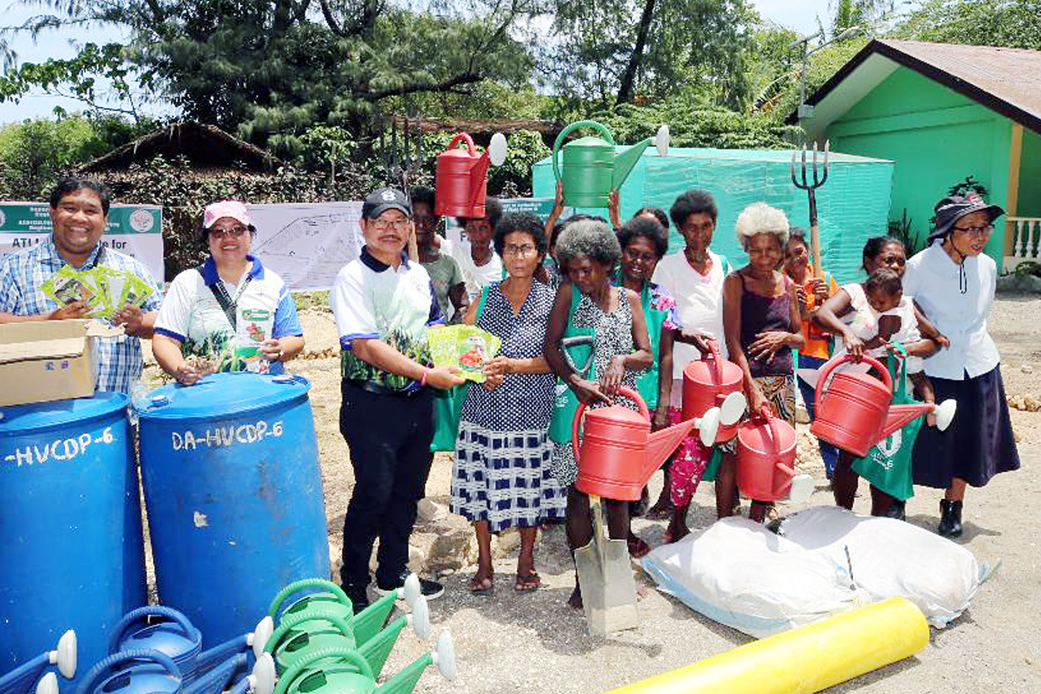 Department of Agriculture Secretary Emmanuel Piñol turns over tools like sprinkler, UV film, spading fork, spade, plastic drums, planting materials, and assorted vegetable seeds to the Ati tribe of Barangay Manoc-manoc in Malay, Aklan on June 27, 2018. The Agriculture chief initially committed PHP2 million in financial support to the indigenous people's and women's groups of Boracay through the Survival Recovery loan program.